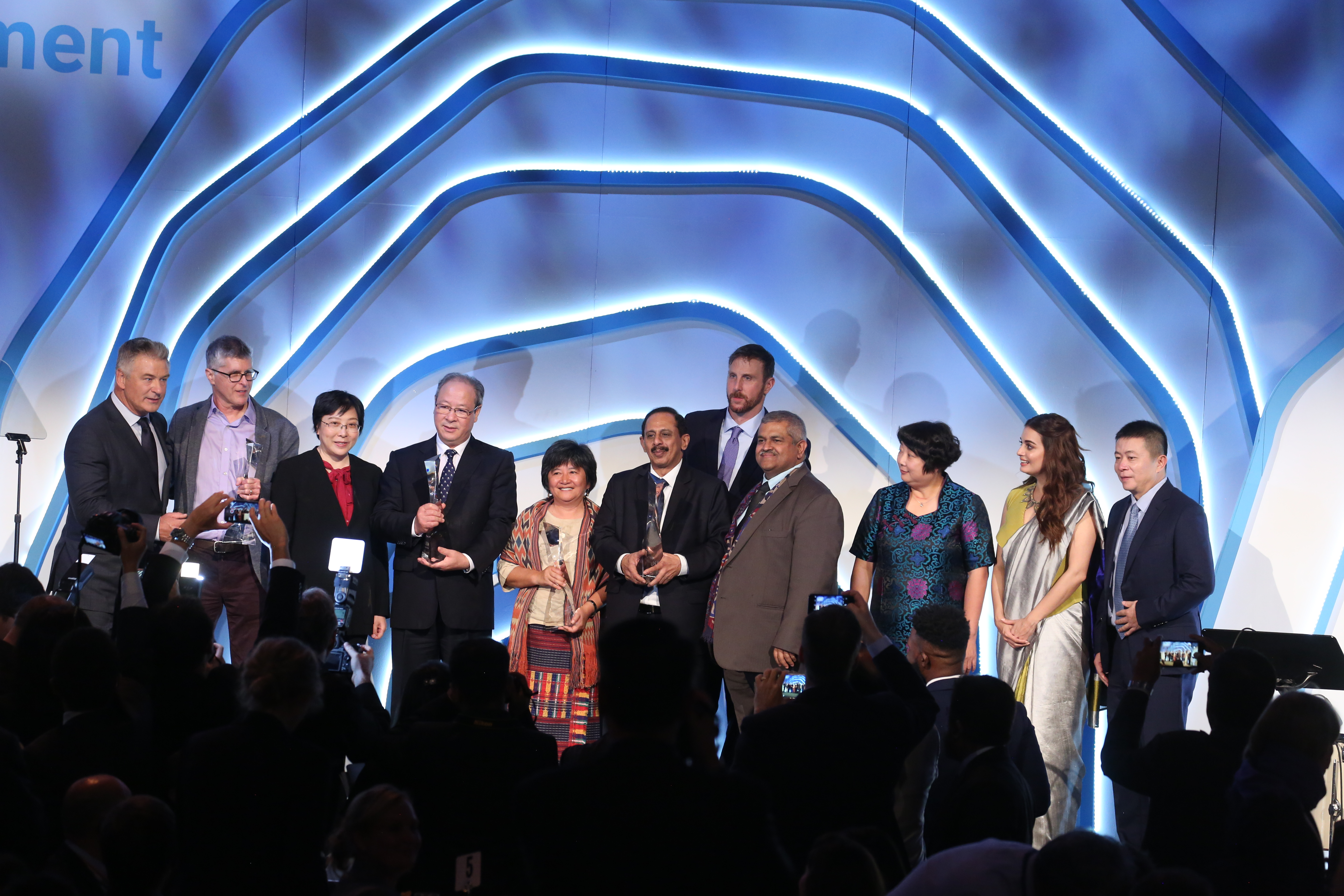 The United Nations Environment Programme (UN Environment) established Champions of the Earth in 2005 as an annual awards programme to recognize outstanding environmental leaders from the public and private sectors, and from civil society. Typically, five to seven laureates are selected annually. Each laureate is invited to an award ceremony to receive a trophy, give an acceptance speech and take part in a press conference. No financial awards are conferred.